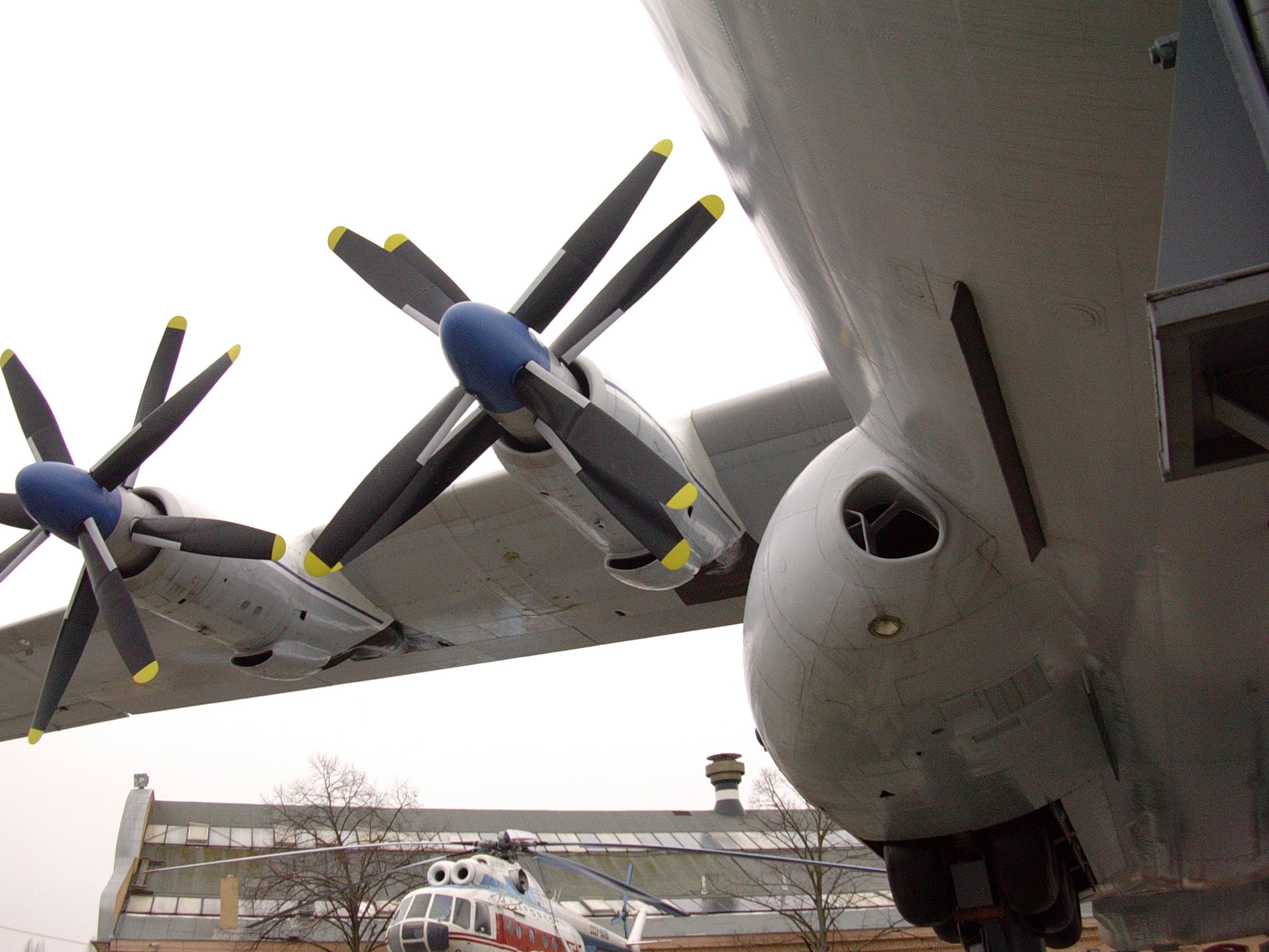 Antonov an22 engine + wing view from underneath